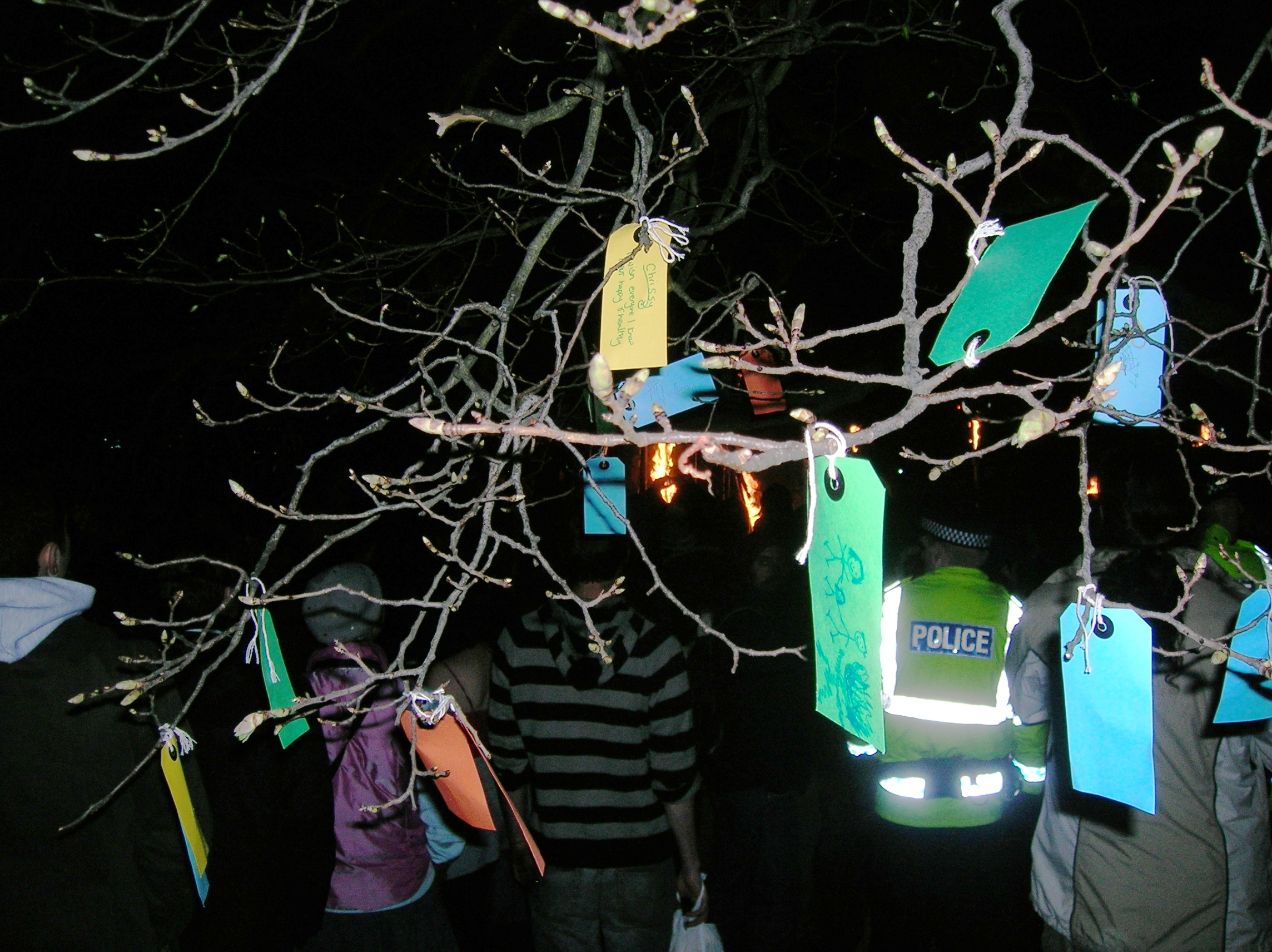 The Wish Tree on Calton Hill, Edinburgh.